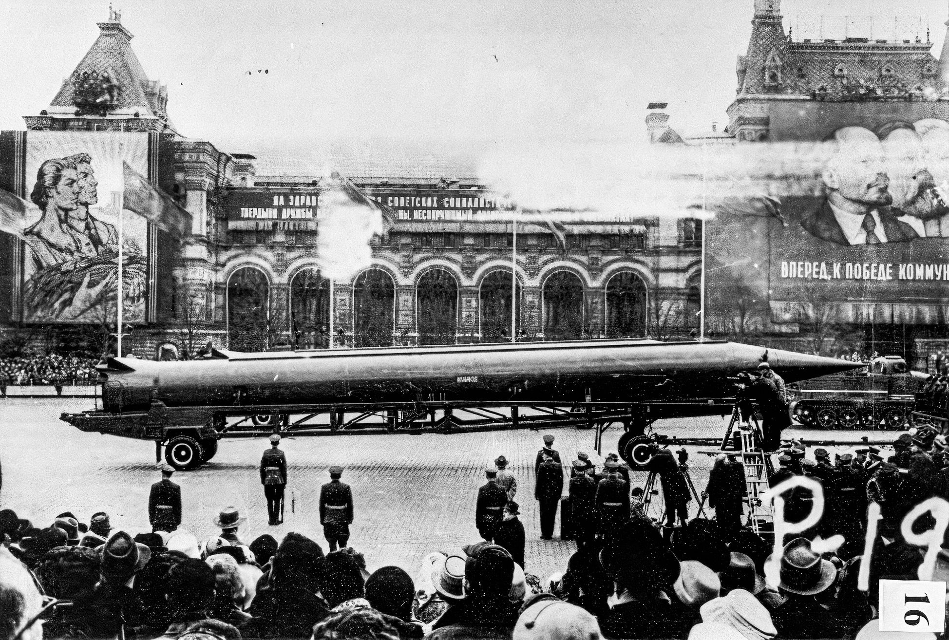 CIA reference photograph of Soviet medium-range ballistic missile (SS-4 in U.S. documents, R-12 in Soviet documents) in Red Square, Moscow.